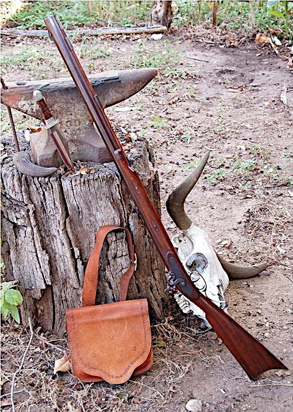 Anvil, powder horn, Bowie knife, Hawken rifle, satchel, and cow skull